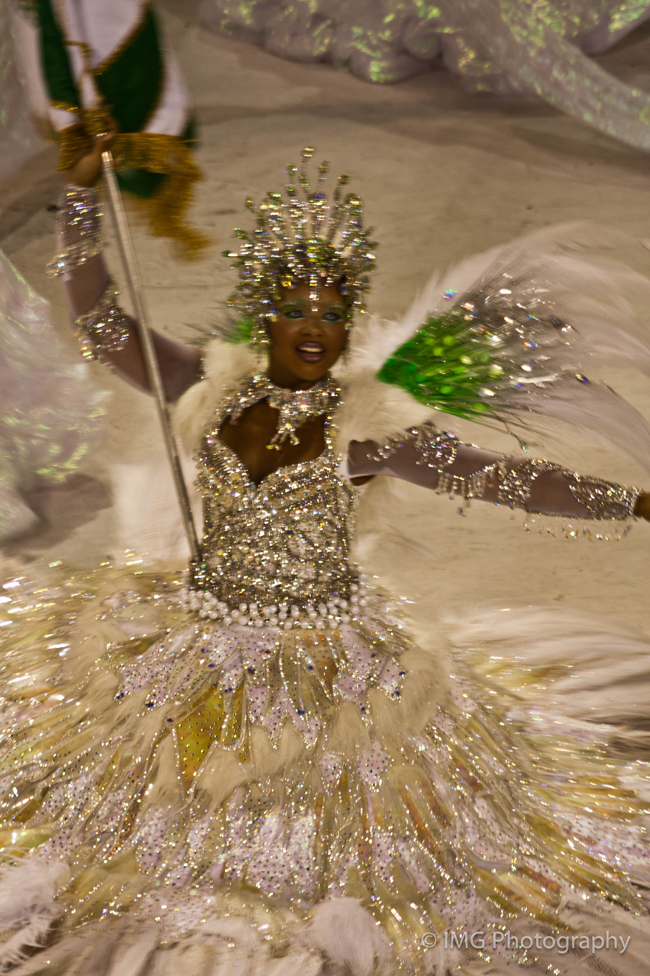 Snow Flakes